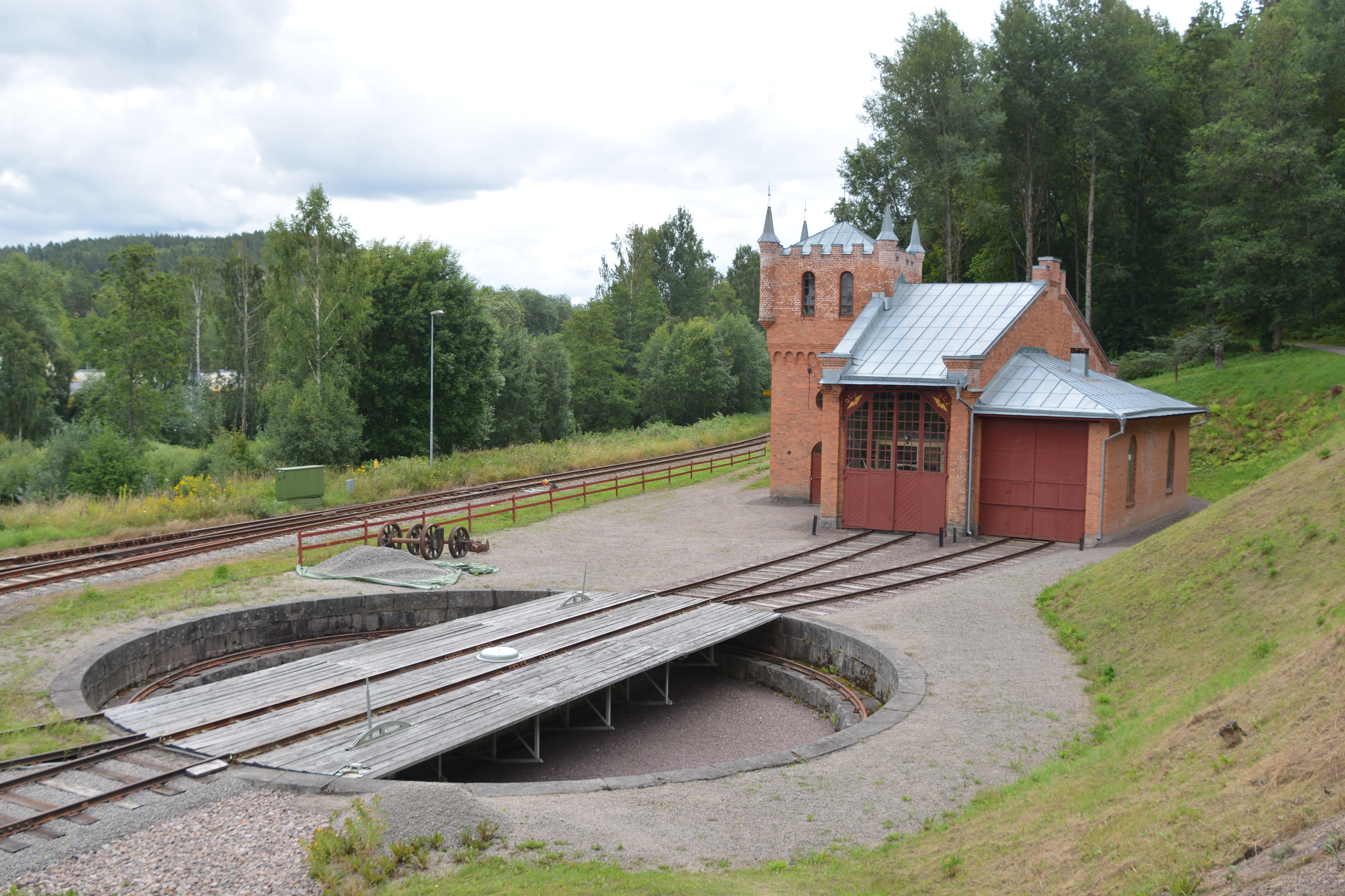 Lokstallet i Kisa